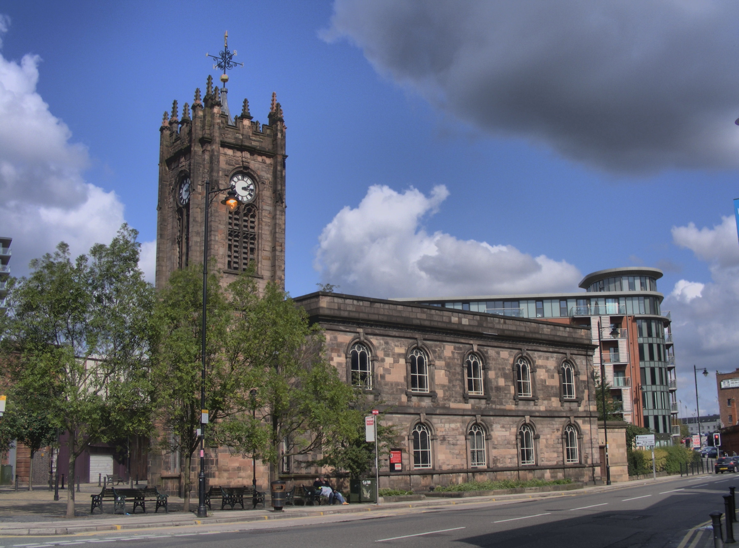 Salford's Church of the Holy Trinity cornered by Blackfriars Road, Chapel Street and the now pedestrianised Gravel Lane. Known locally as the flat Iron church due to its flat roof.